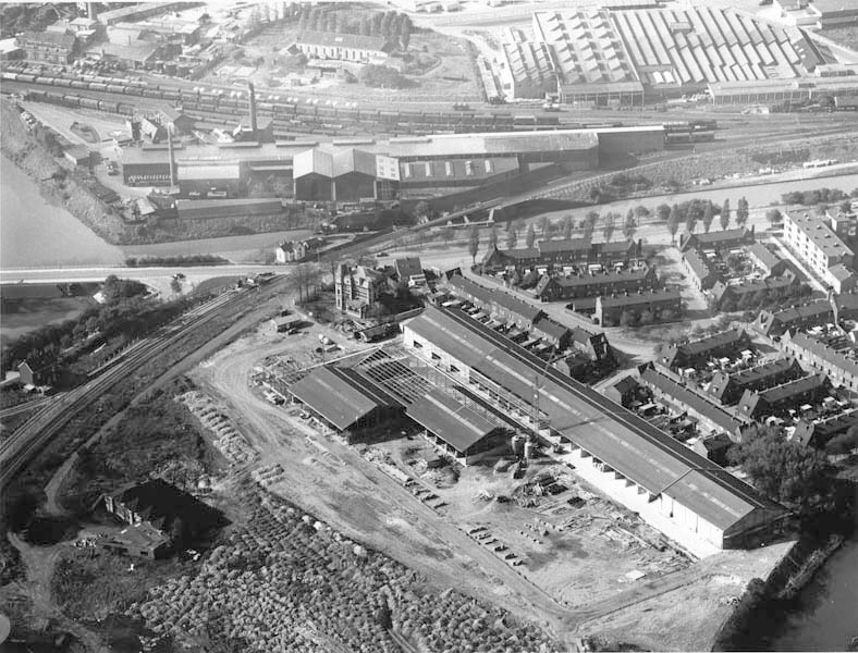 Aerial view of factory buildings of Sphinx potteries in Maastricht, Netherlands. Prior to 1961 Stadium De Boschpoort (MVV Maastricht) was located here. Collection: RHCL, Maastricht, ref. nr. 8066.